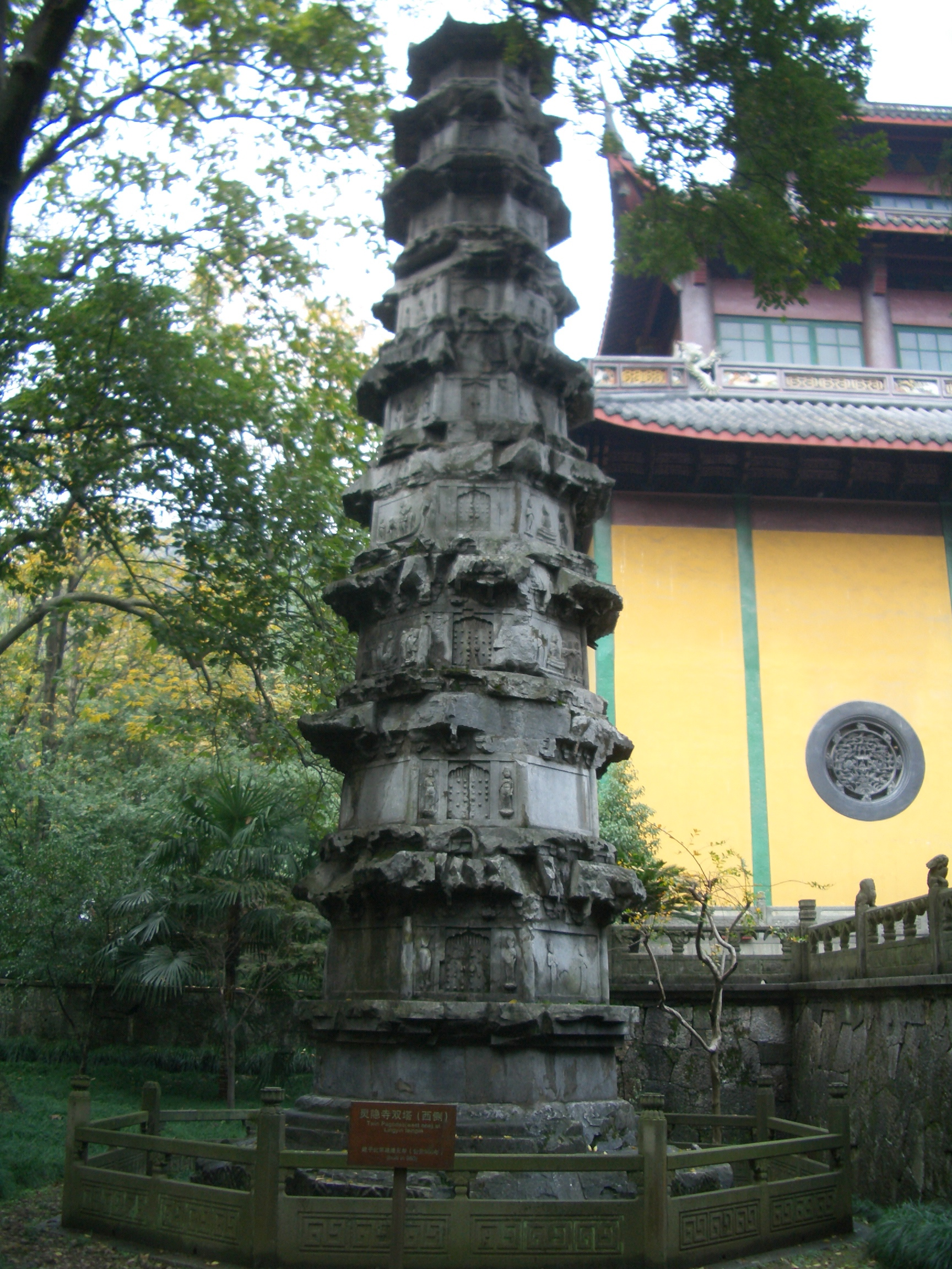 A Chinese pagoda in Hangzhou, China.